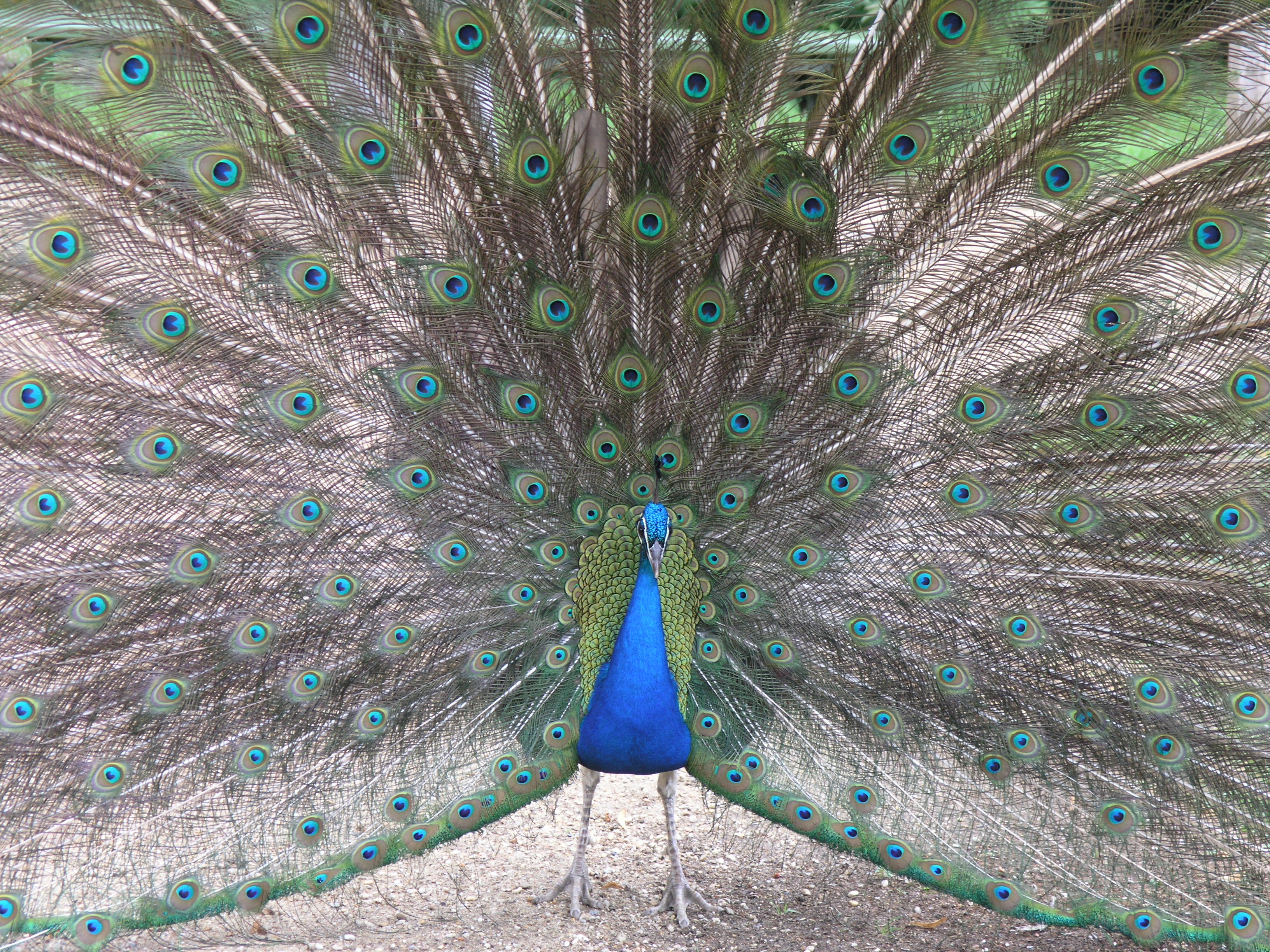 Pavo cristatus